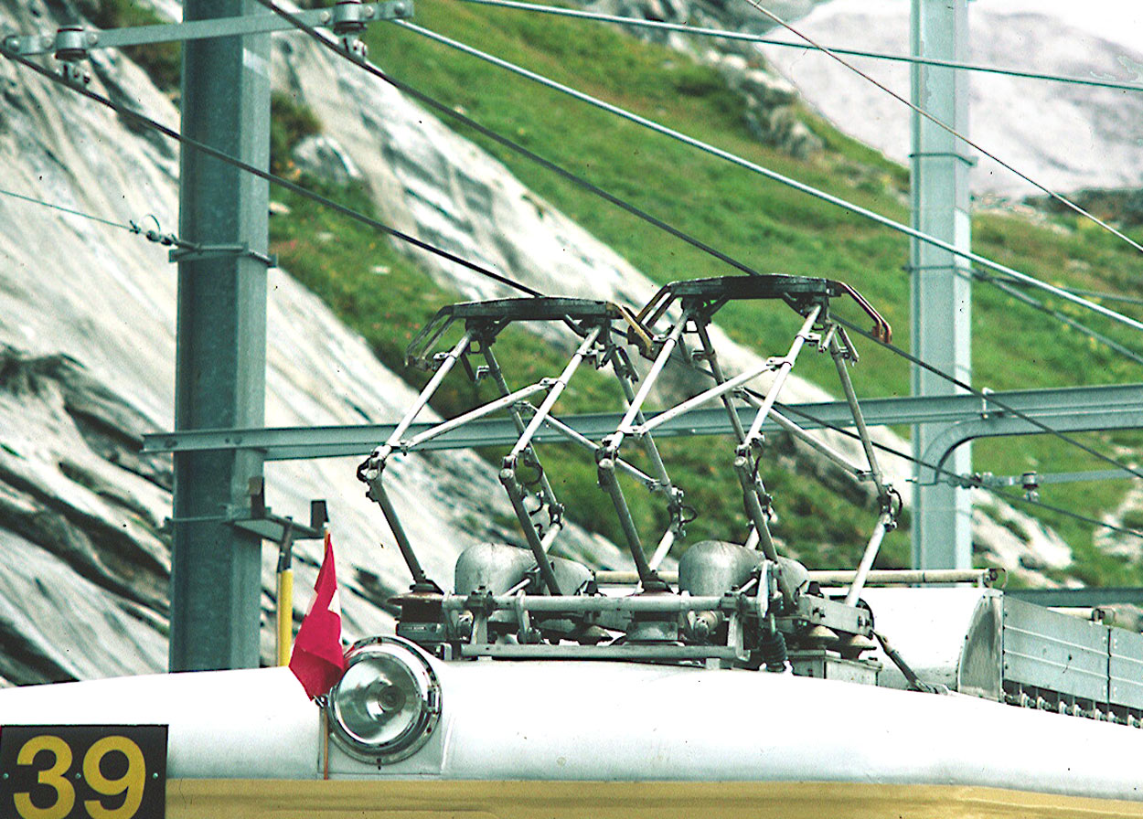 The Jungfraubahn is energised at 1125v using a three-phase ac system which requires the trains to collect power from twin overhead wires, using two pantographs, as seen here.